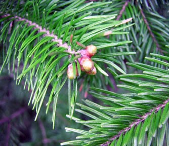 Abies sibirica shoot with buds opening in spring